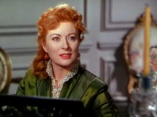 Cropped screenshot of Greer Garson from the trailer for the film That Forsyte Woman